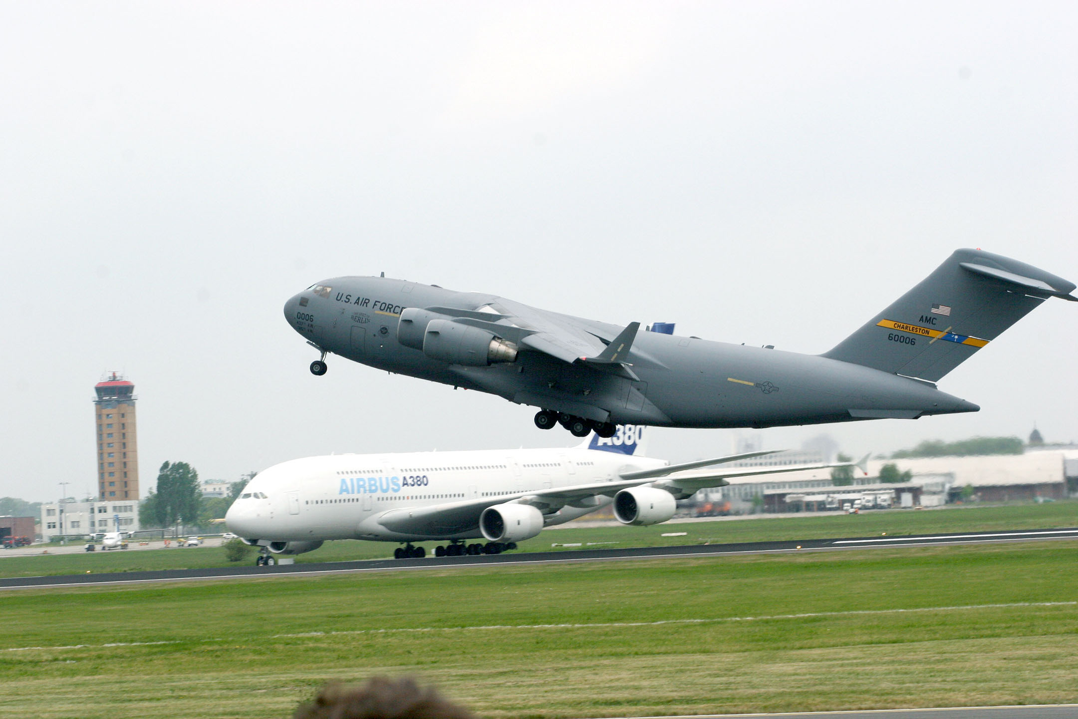 The "The Spirit of Berlin," a C-17 Globemaster III from Charleston Air Force Base, S.C., takes off for a flight demonstration at the Berlin Air Show on May 16, 2006. The C-17 and other Air Force and Army aircraft are on display at the air show at Berlin-Schoenefeld Airport May 16-21. (U.S. Air Force photo/Maj. Pamela A.Q. Cook)